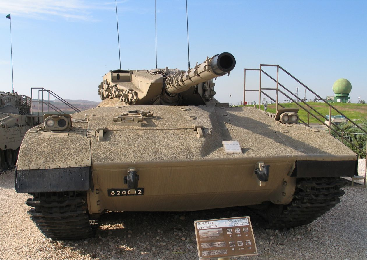 Description: Israeli Merkava Mk I MBT in Yad la-Shiryon Museum, Israel. 2005. Source: Photo by me, User:Bukvoed.